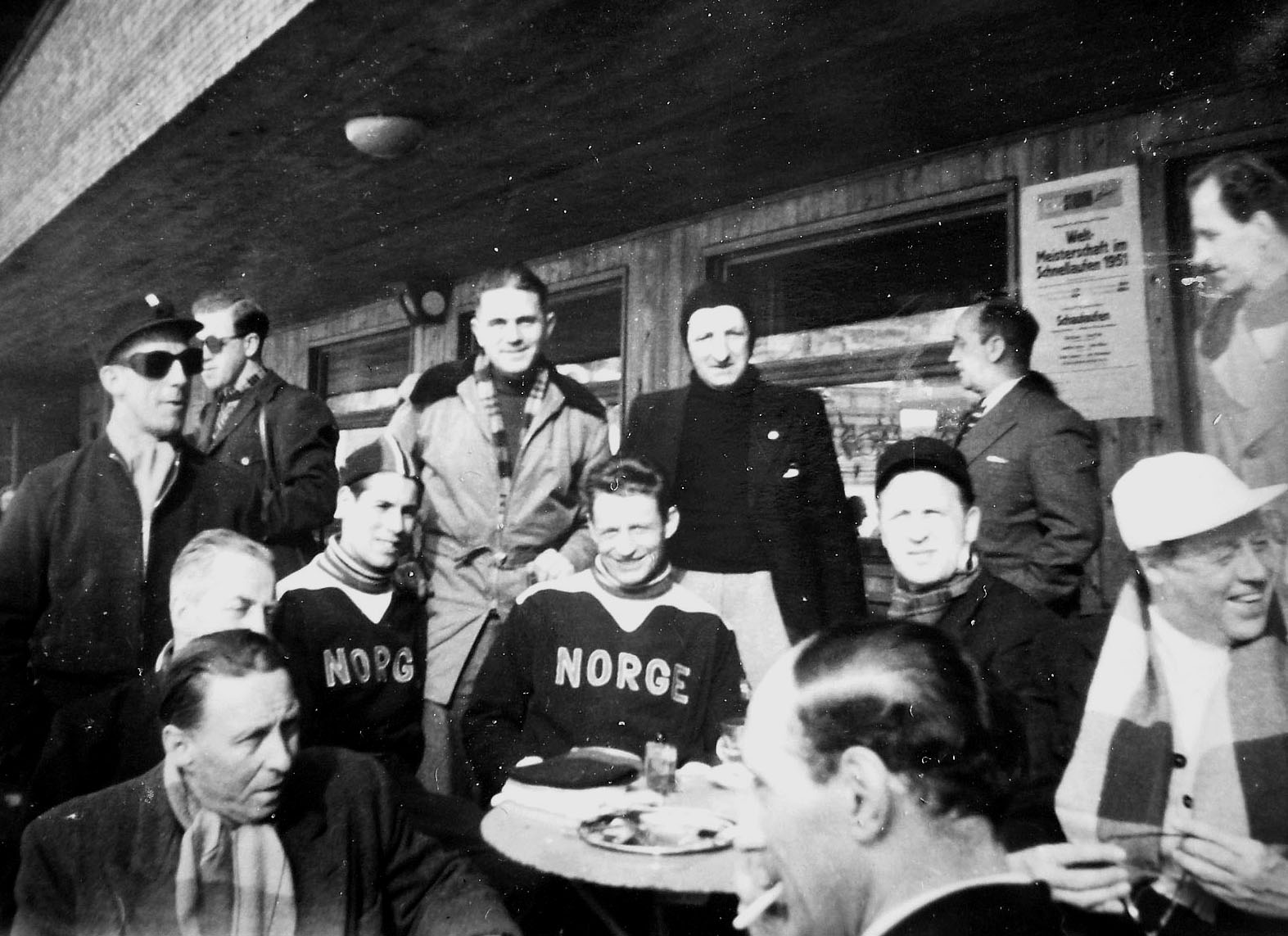 davos